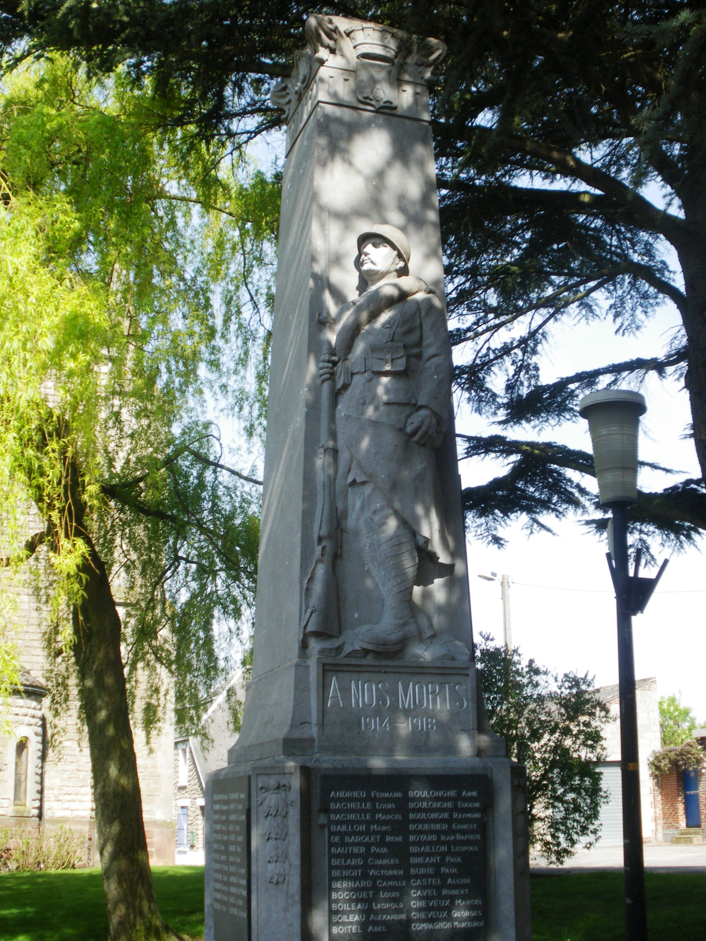 The monument aux morts at Nesle in the Somme